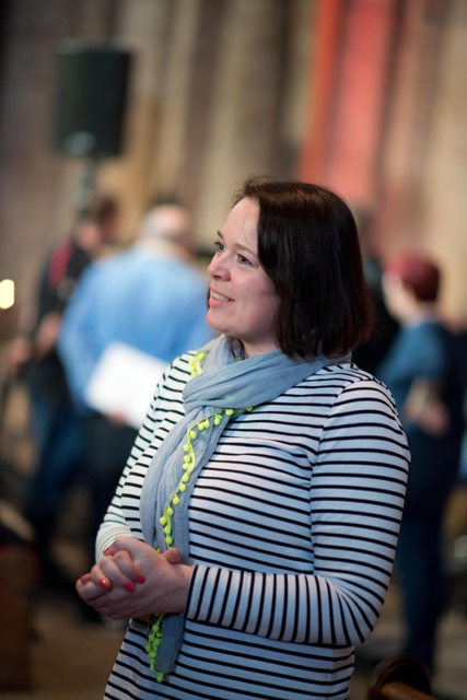 Composer Jessica Curry wearing a black and white striped jumper